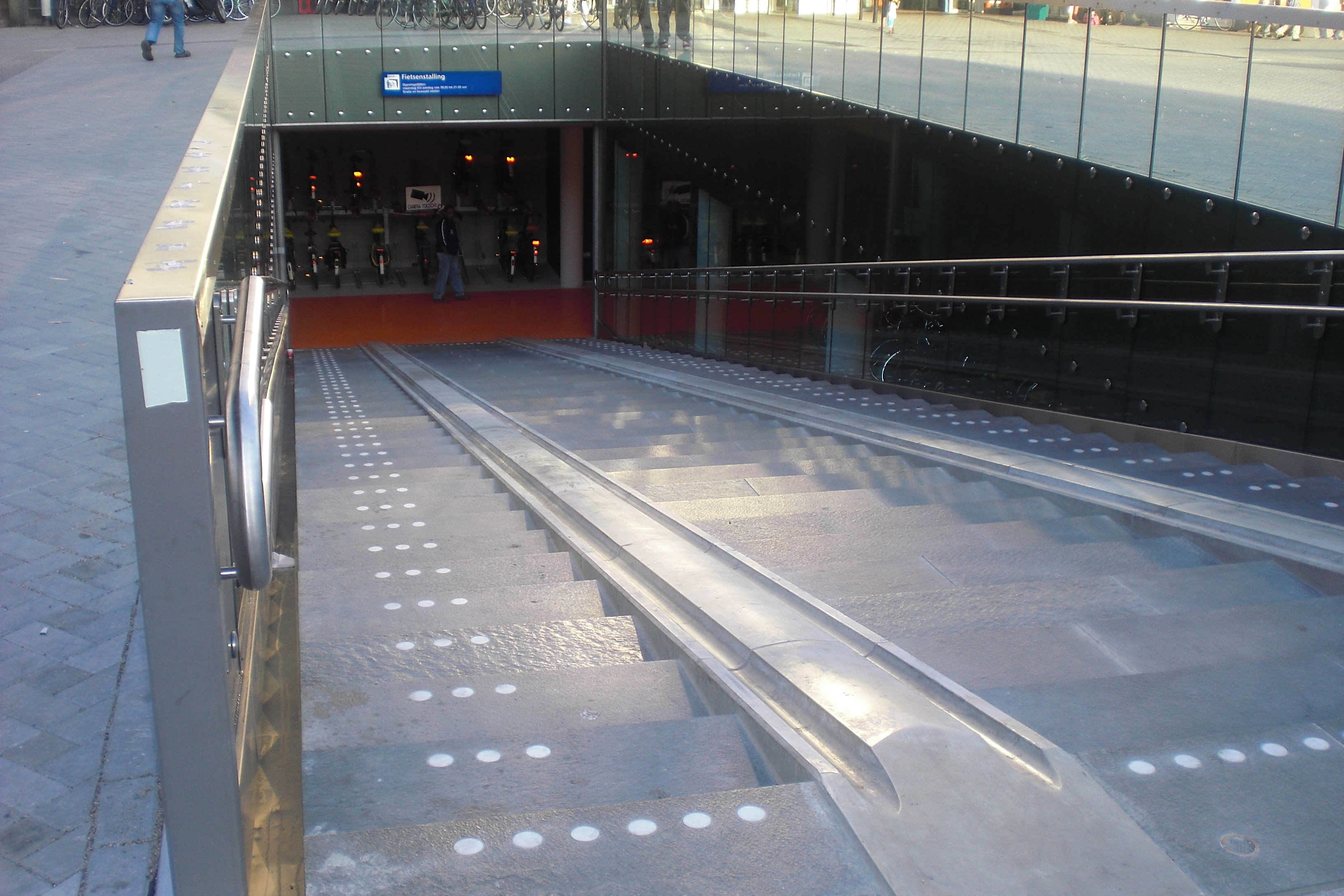 Leiden Central Station, the new bicycle shed at the sea side. The Netherlands